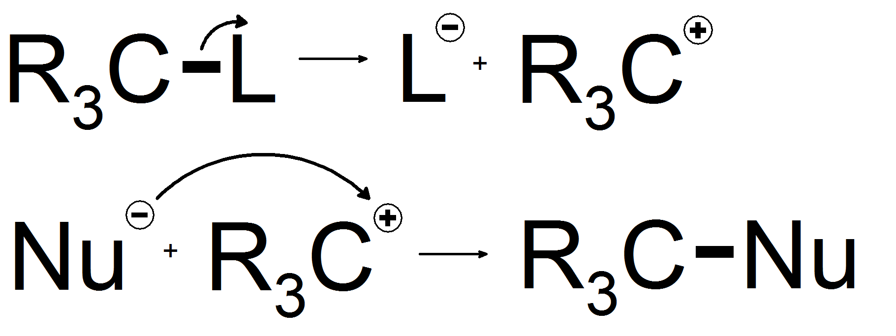 Anw:SN1 reaction showing Arrow pushing. Replaces File:JupiterccnetcomSN1.jpg. Created using ACD/ChemSketch 11.